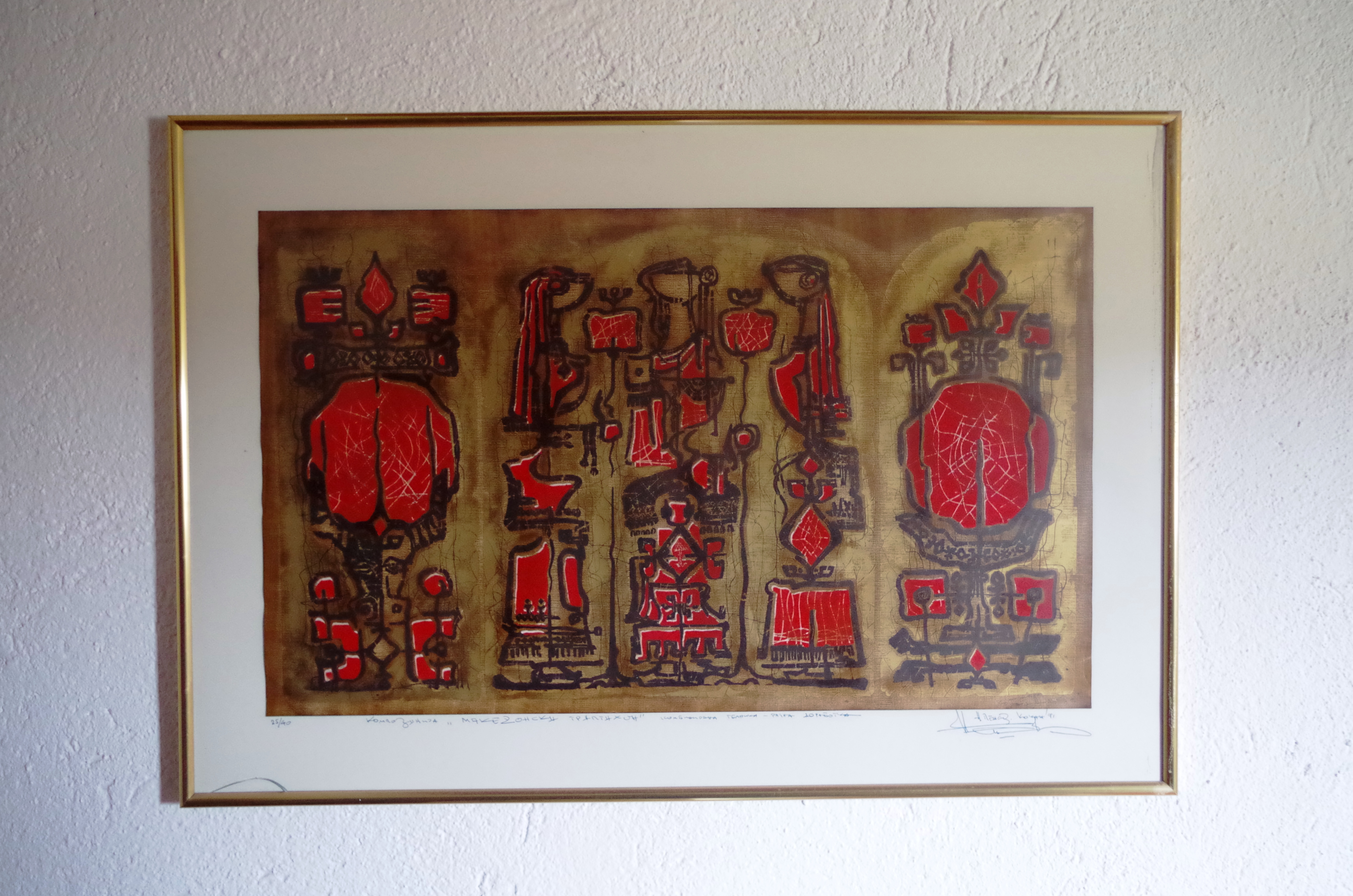 Picture in the hall of the hotel in the winery "Popova Kula", near Demir Kapija